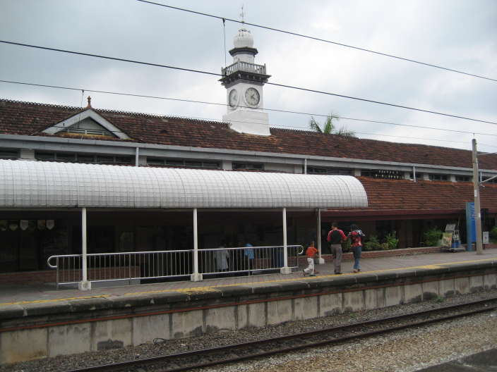 This is a photo I took of the KTM station in Seremban, Negeri Sembilan, Malaysia.